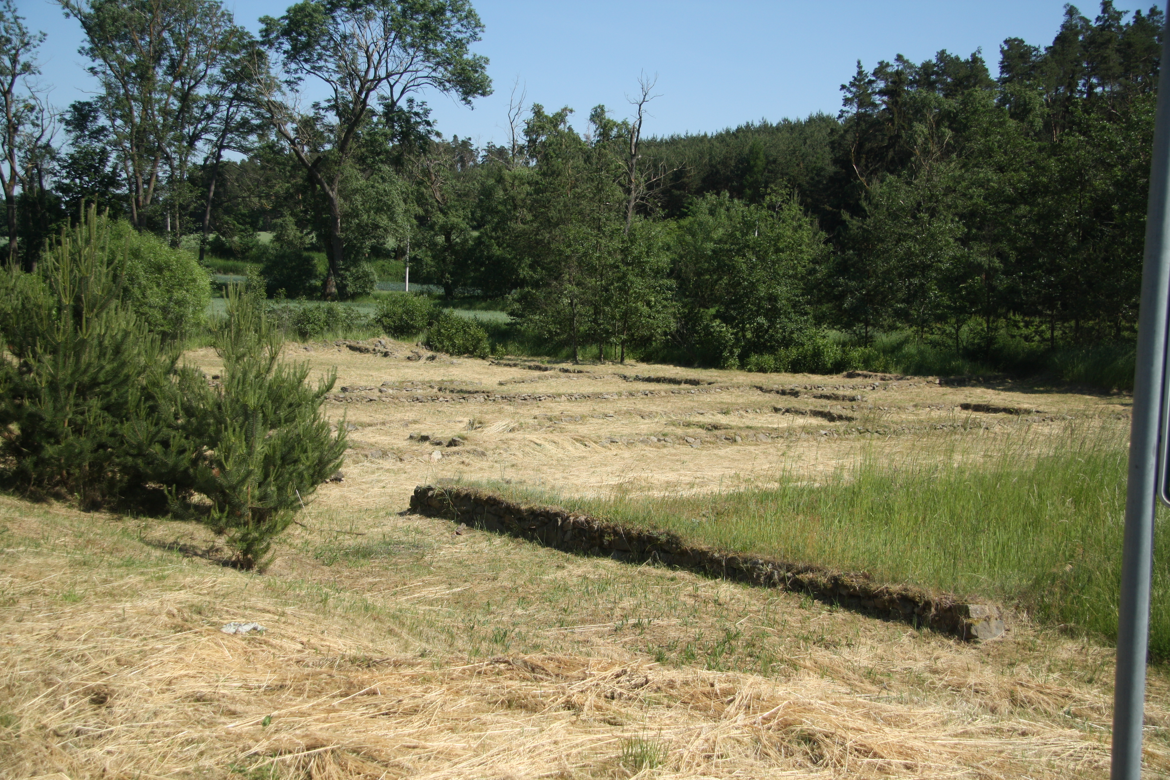 Houses of Mstěnice Village near Hrotovice, Třebíč District.